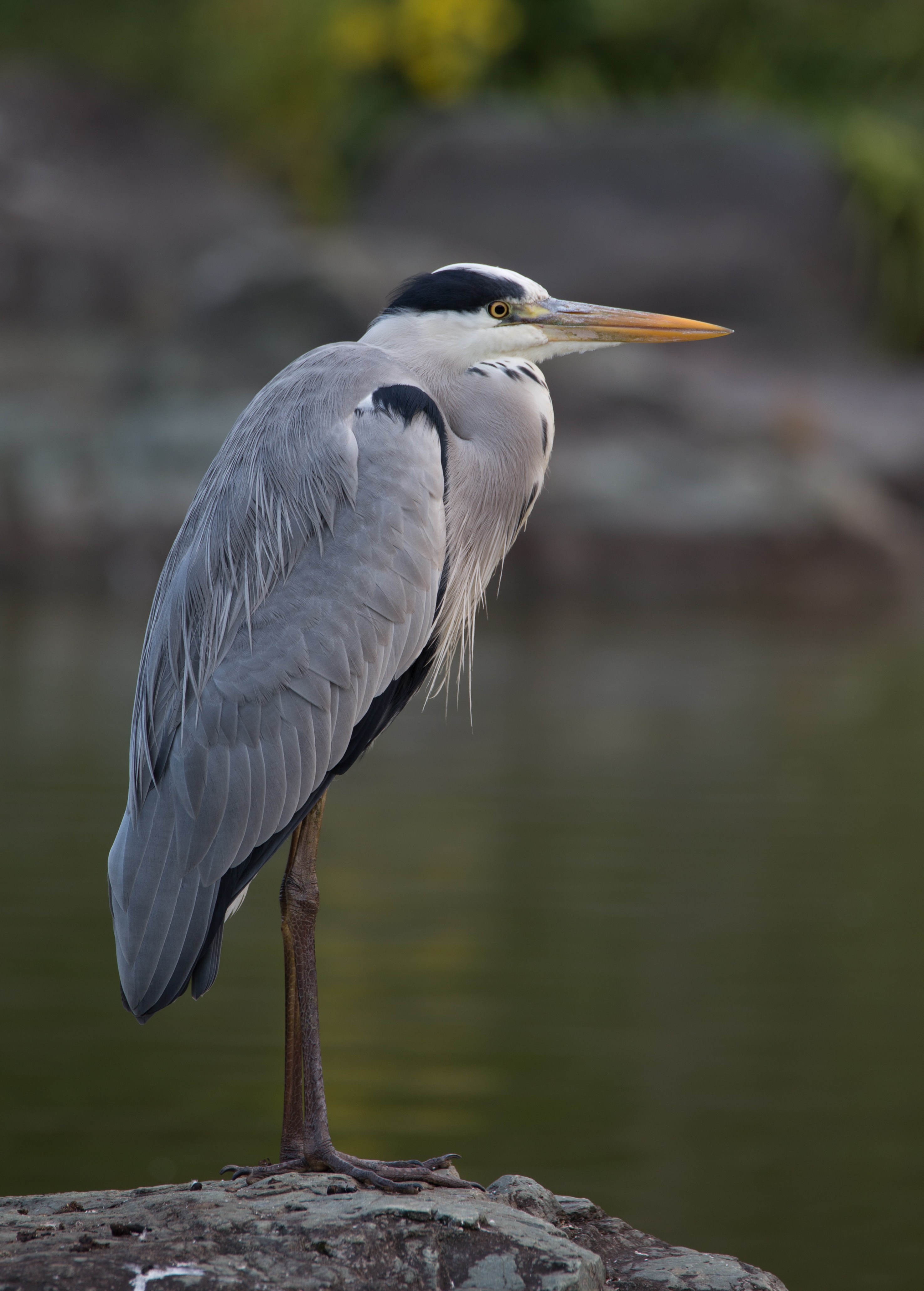 Grey Heron at Daisen Park in Sakai, Osaka.